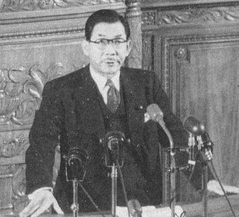 The future Japanese prime minister Takeo Miki (三木武夫, 1907-1988).